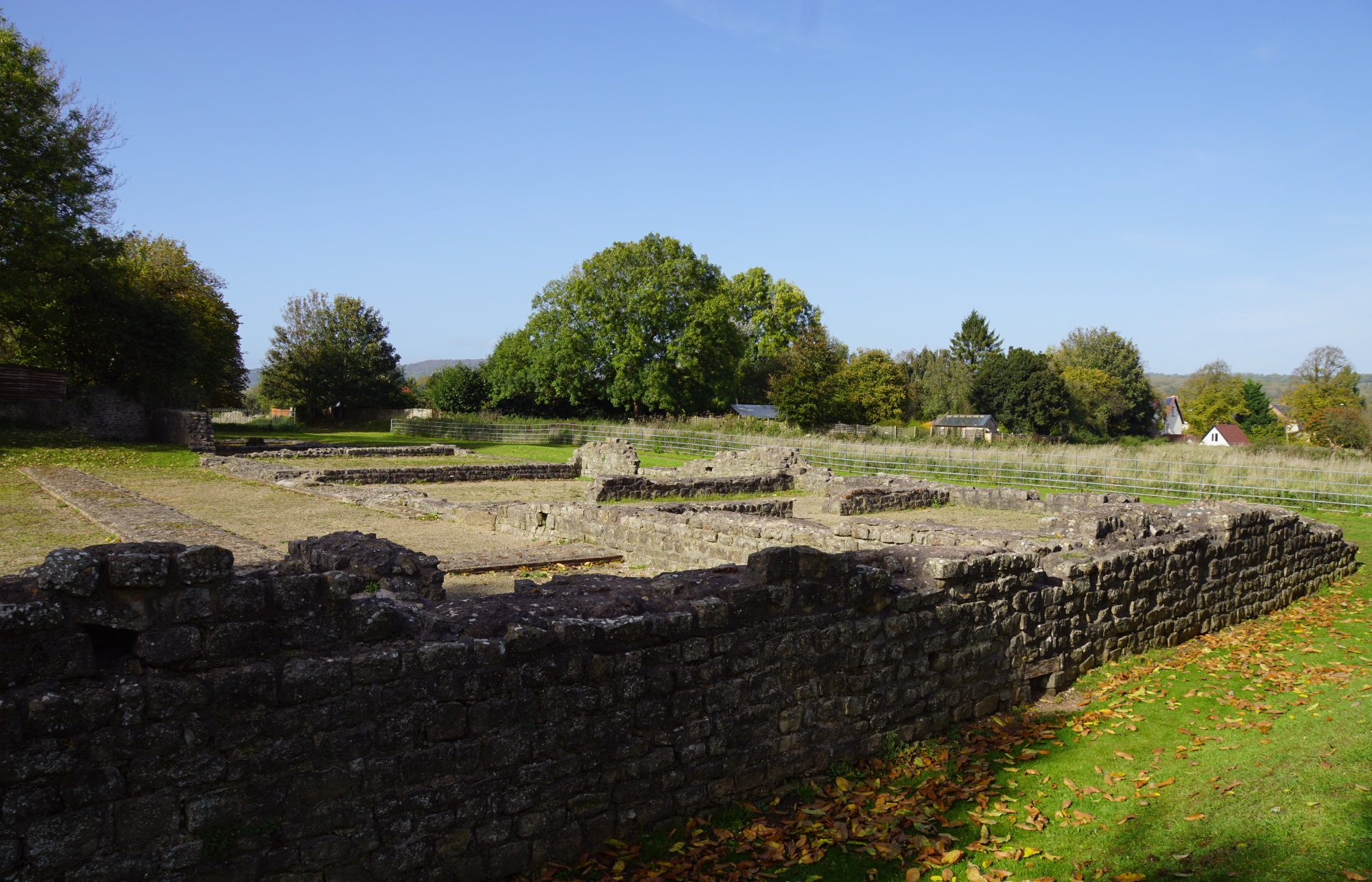 Caerwent, Wales. Forum-Basilica of the Roman Town Venta Silurum.